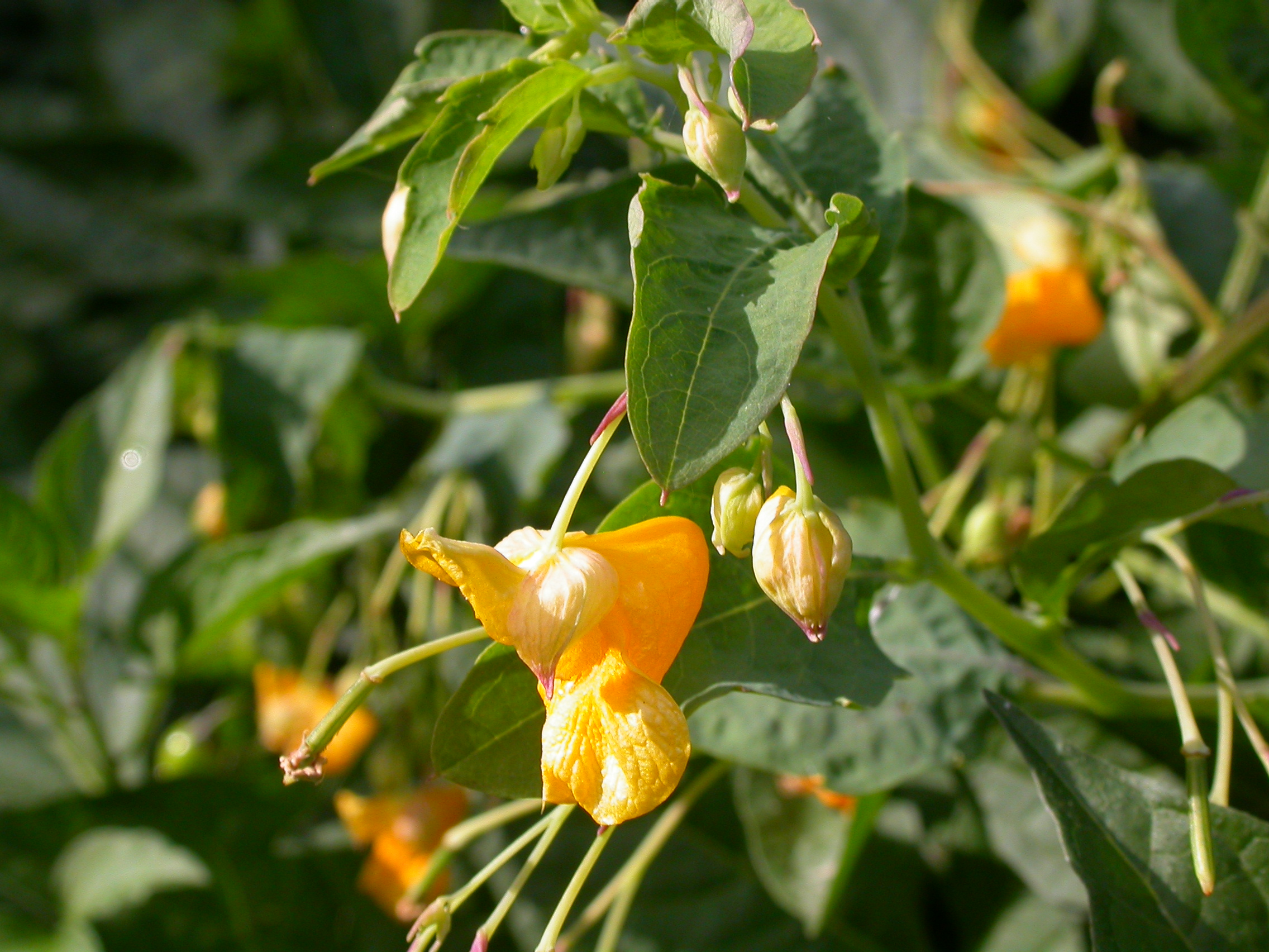 The pendant flowers comprise yellow sepals and petals. Two of the sepals are small and whitish yellow wheras the lower sepals is large, saccate, and deep yellow. Of the five petals, the lateral pairs are united (fused).